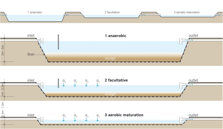 Schematic of the Waste Stabilization Pond (WSP)